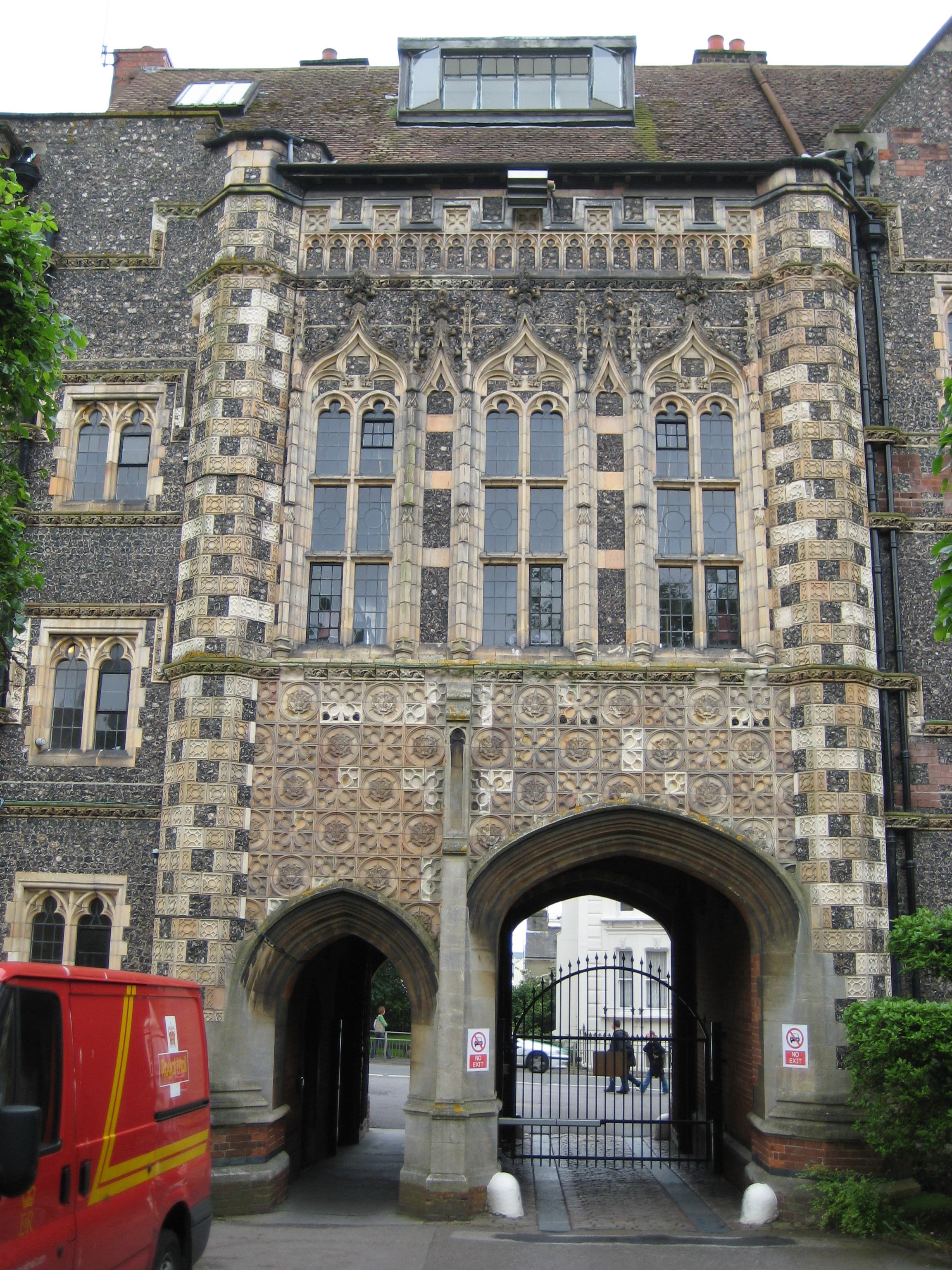 Brighton College Headmaster's Study and gateway from inside the College, looking south.